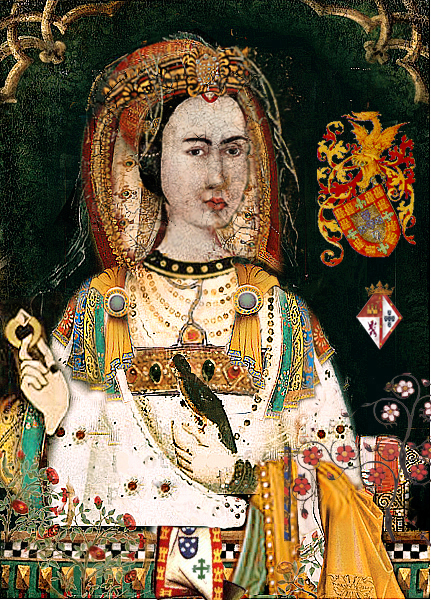 Representação de Joana de Portugal (1438-1475)